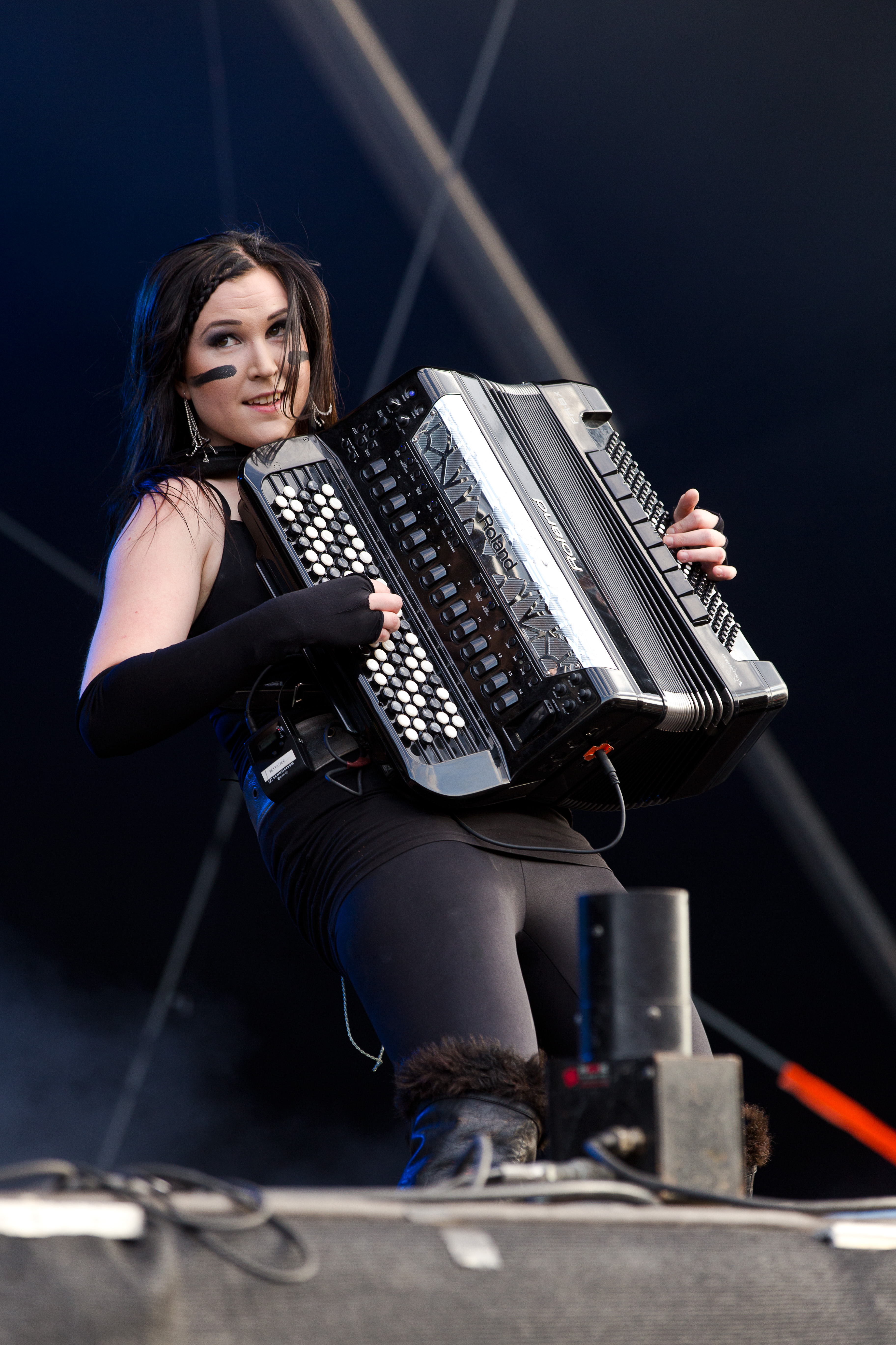 The Finnish folk metal band Ensiferum at the Rockharz Open Air 2016 in Ballenstedt/Germany.